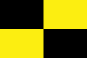 Flag of the belgian municipality of Lubbeek